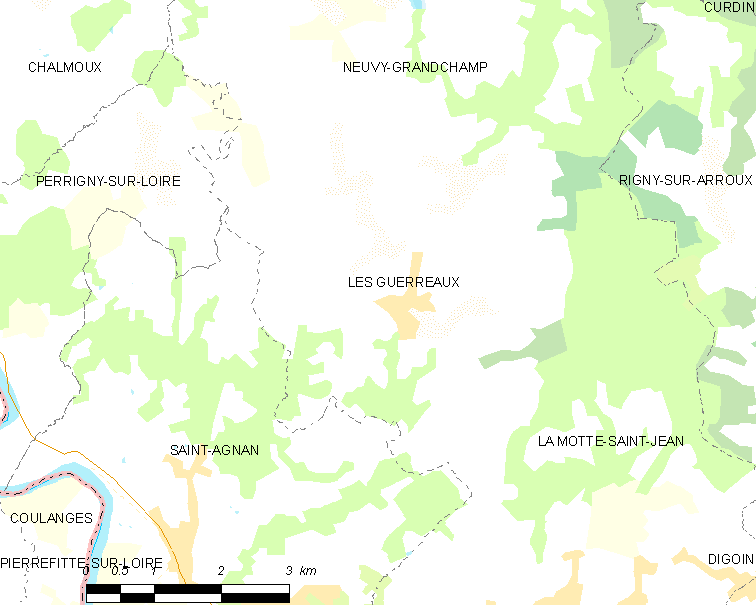 Map of French municipality